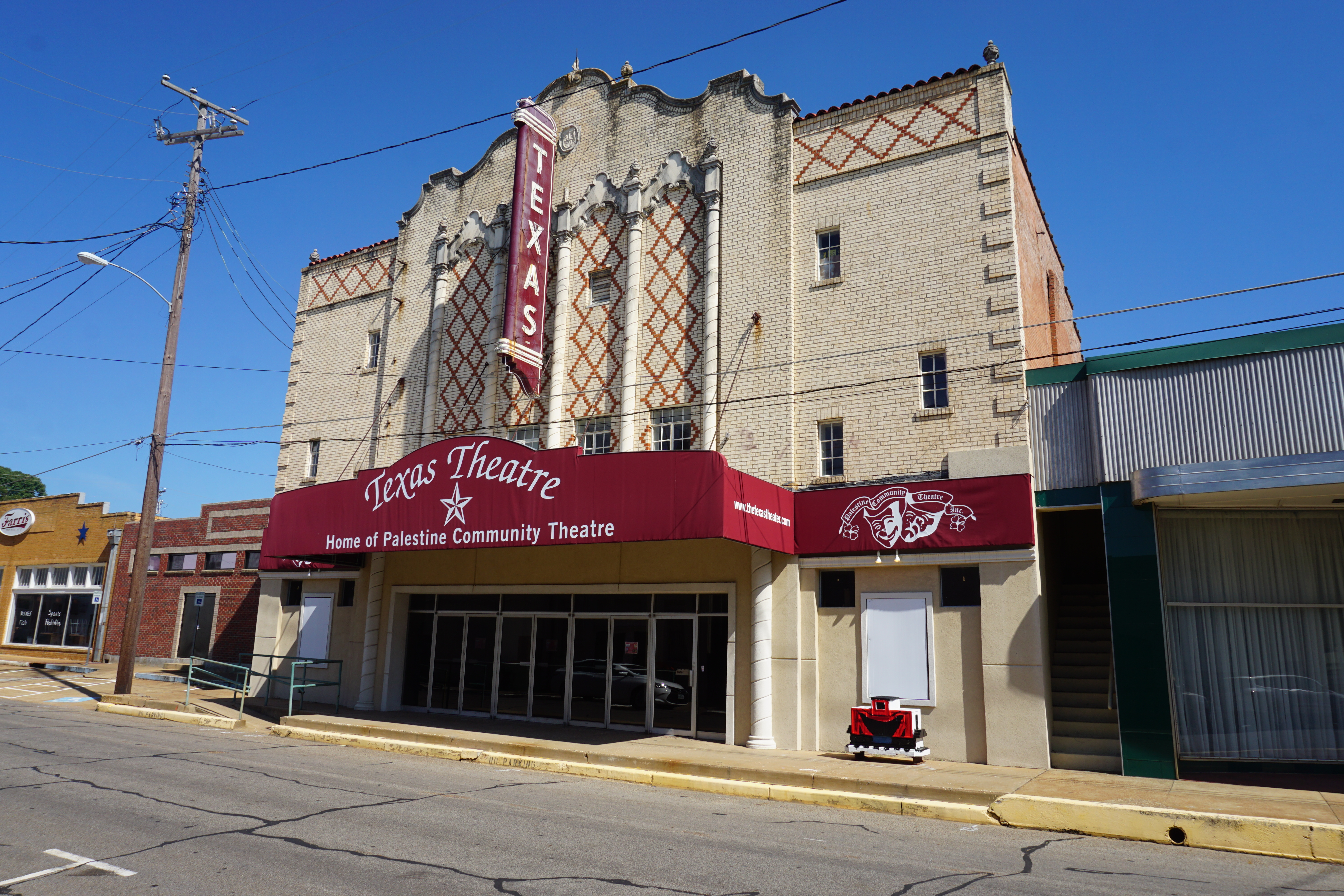 The Texas Theatre in Palestine, Texas (United States).